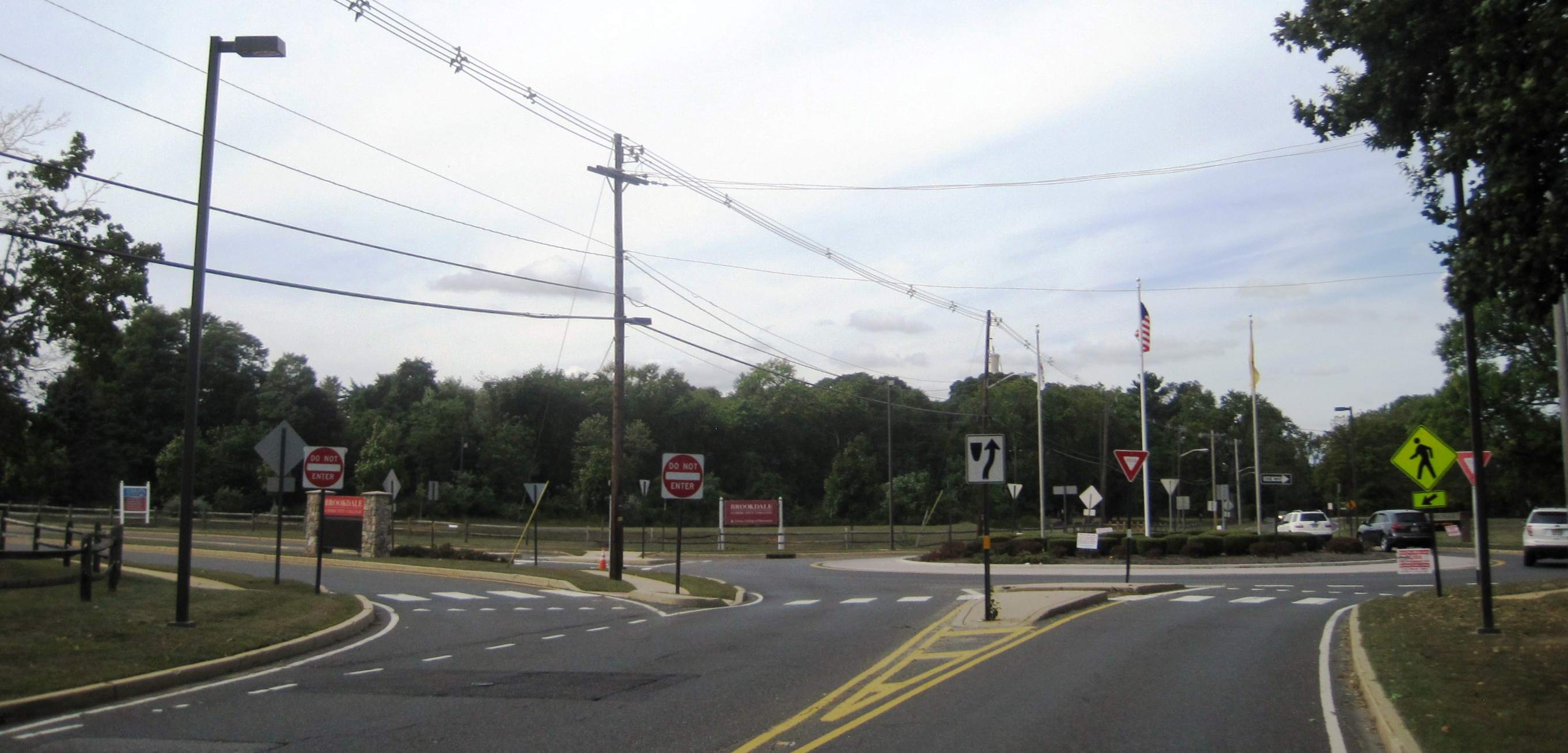 Photo showing the main entrance to Brookdale Community College in Lincroft, Middletown Township, New Jersey. Photo taken at its entrance at a roundabout along County Route 520.